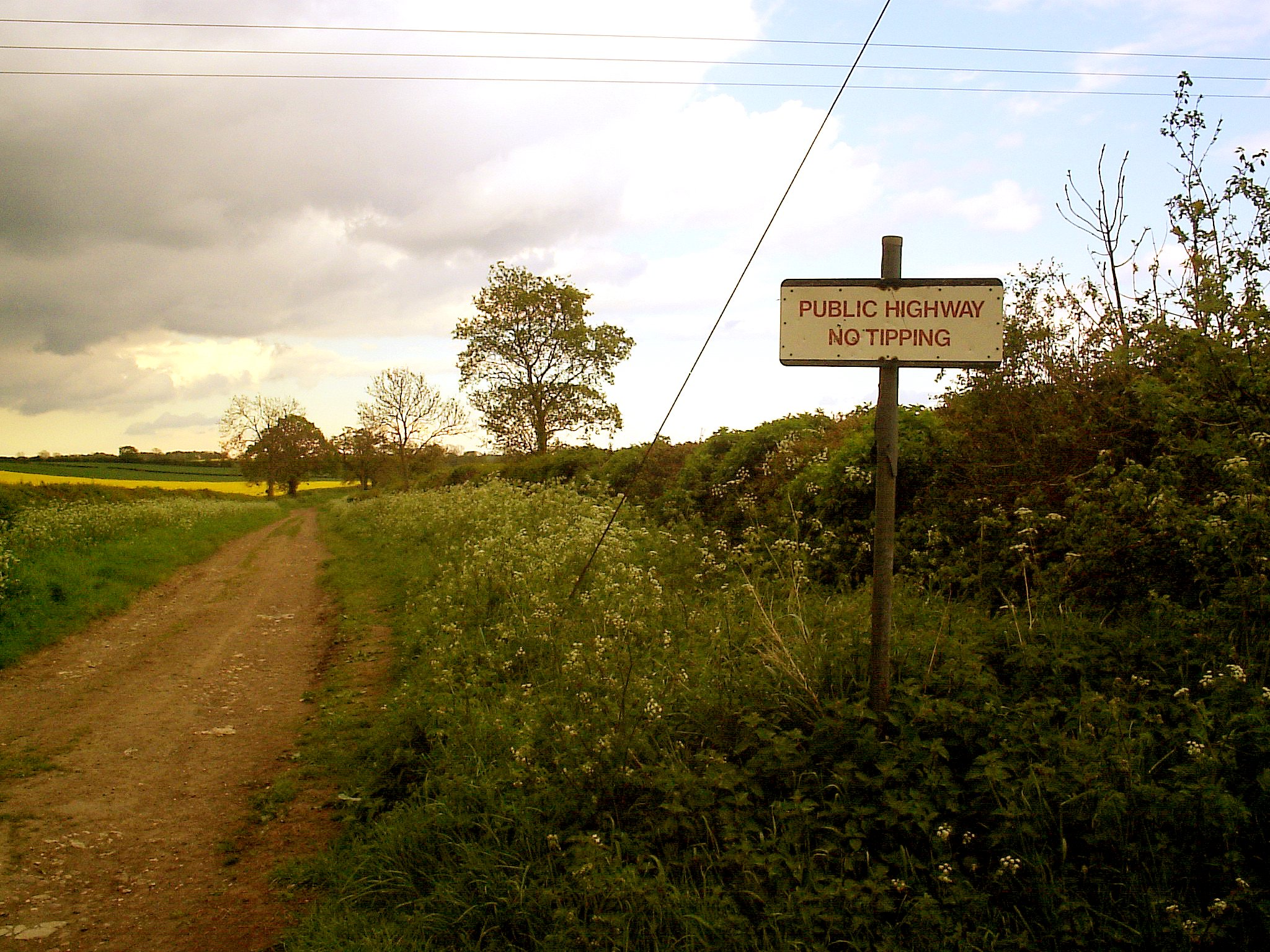 A Byway (Green Lane) in Grendon.